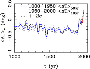 This is meant to be a better version of 100px| This graph is published above the GFDL: Empirical data are from [source ] Climate Change 2001: Working Group I: The Scientific Basis (International Panel on Climate Change) The data are for the Northern Hemisphere. 50 year averaged data are shown for 1000-1950, in blue, with upper limit to 95% confidence limit estimated from the IPCC annual data as 0.5/sqrt(50.0) up to 1600, and 0.3/sqrt(50.0) after 1600 10 year averaged data for 1950-2000 are shown, in red, with upper limit to 95% confidence limit estimated from the IPCC annual data as 0.15/sqrt(10.0) Boud 22:24, 9 Jan 2004 (UTC) The error bars on here appear to be significantly misleading. The original IPCC graph at the source page [1], contains a much larger 95% confidence limit (the grey region) than the graph prepared here. The shrinking of those error bars makes the historical data appear artificially more accurate than it is actually believed to be. — Cortonin